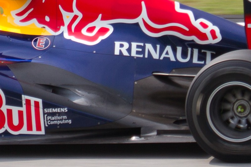 Formula One 2012 Rd.2 Malaysian GP: Red Bull RB8's exhaust.